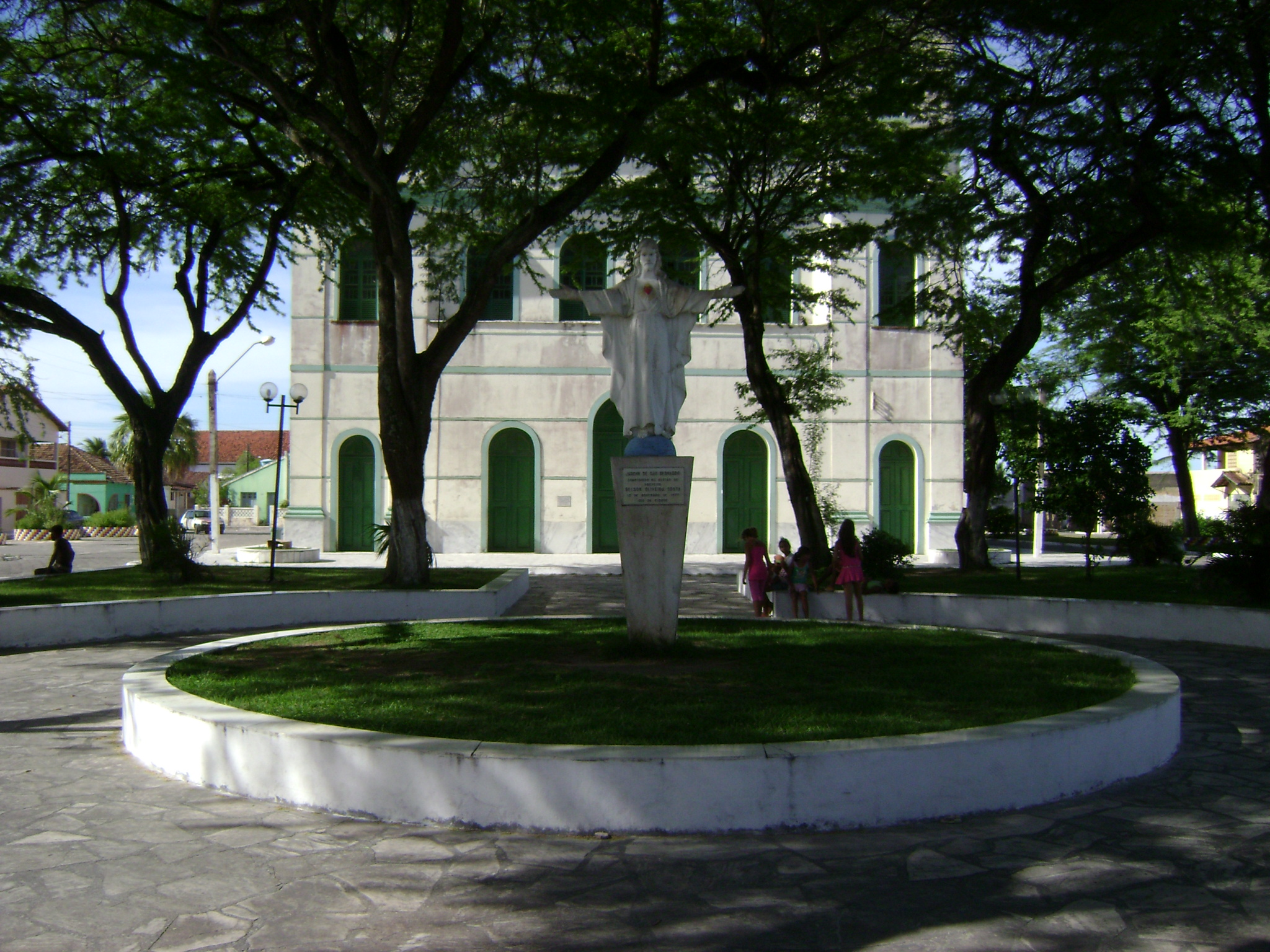 São Bernardo' Church.